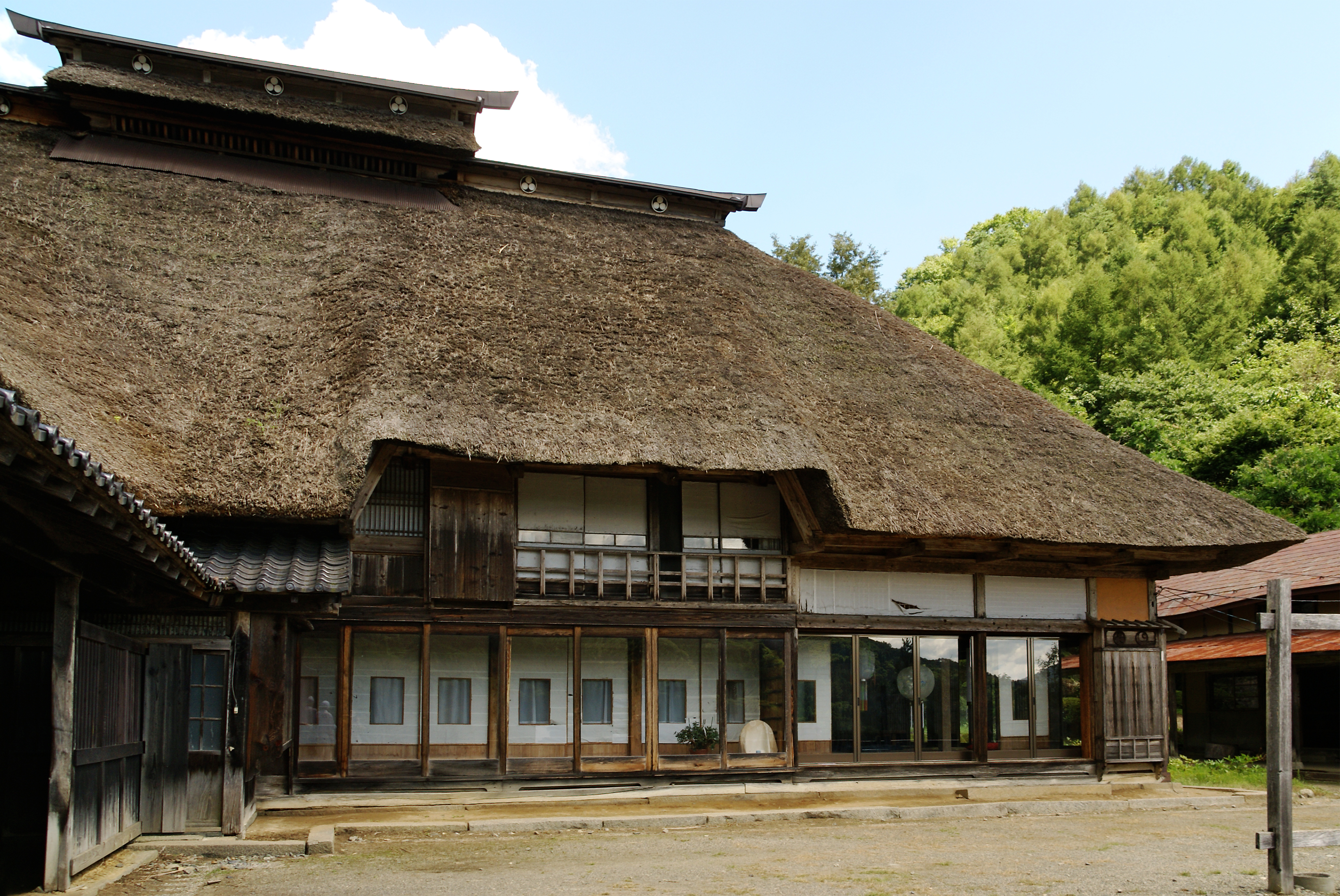 Chiba curvature house in Tono, Iwate prefecture, Japan